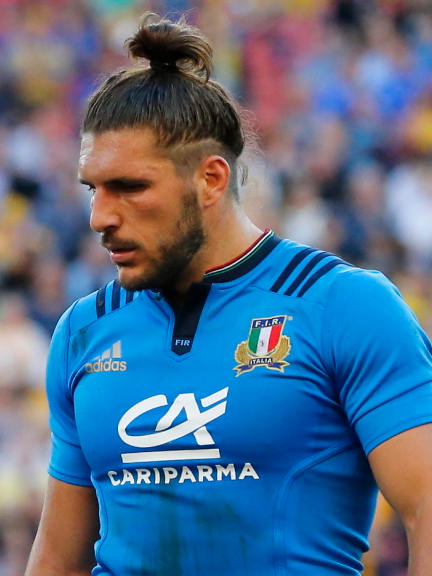 2017.06.24.16.24.02-Giovanbattista Venditti-0001 The 2017 mid-year rugby union internationals, 24 June 2017, Australia vs Italy at Suncorp Stadium, Brisbane